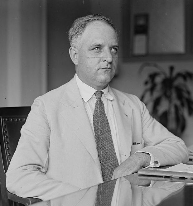 Bert E. Haney, federal judge